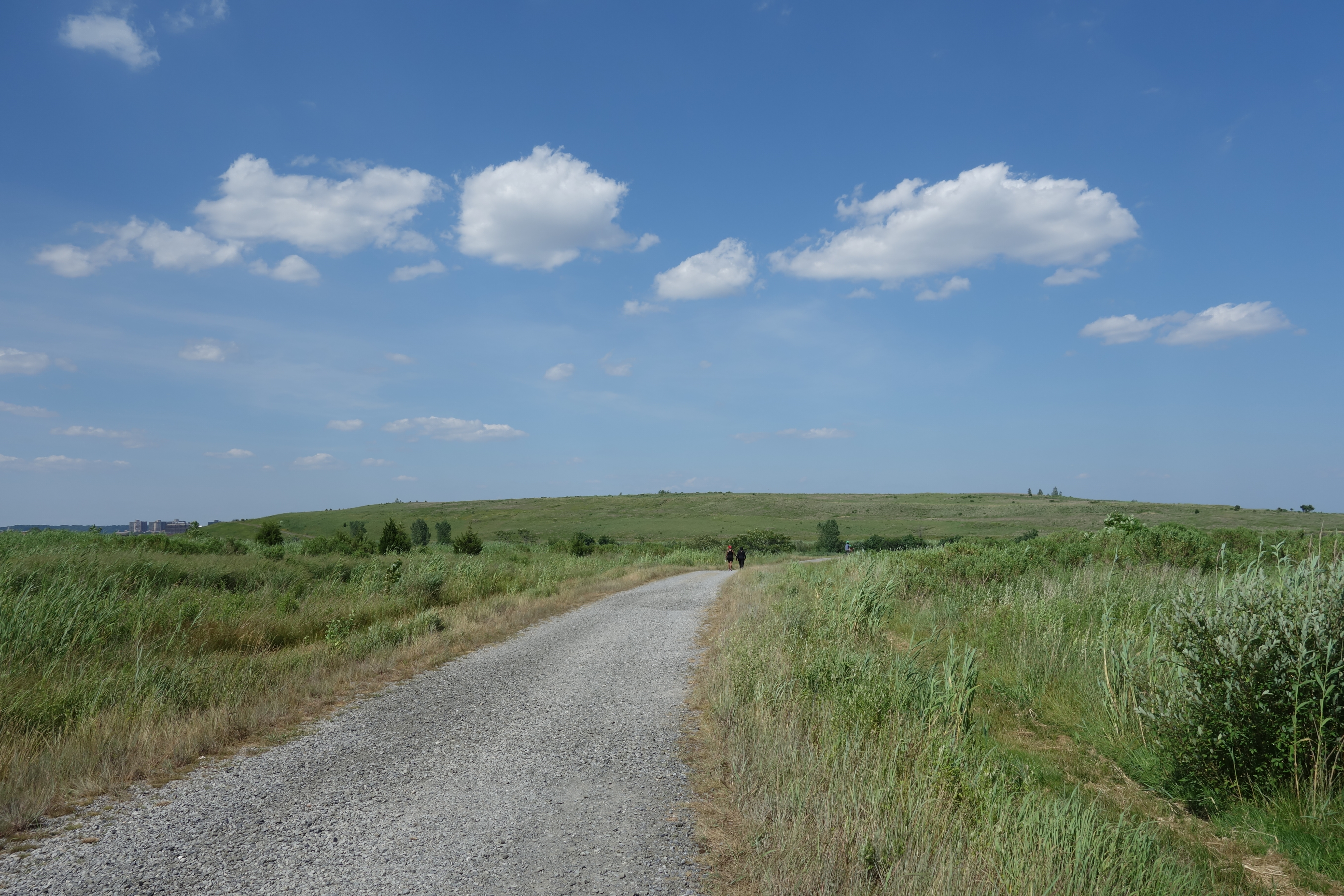 Looking down the trail leading east towards Penn Pier from the junction of the Oystercatcher and Peregrine Trails near the south end of the Penn Park section of Shirley Chisholm State Park, south of the Belt Parkway and Pennsylvania Avenue across from Starrett City in Spring Creek, Brooklyn.